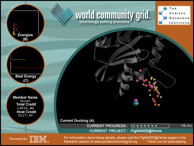 Screensaver of World Community Grid solving the FightAIDS@home project